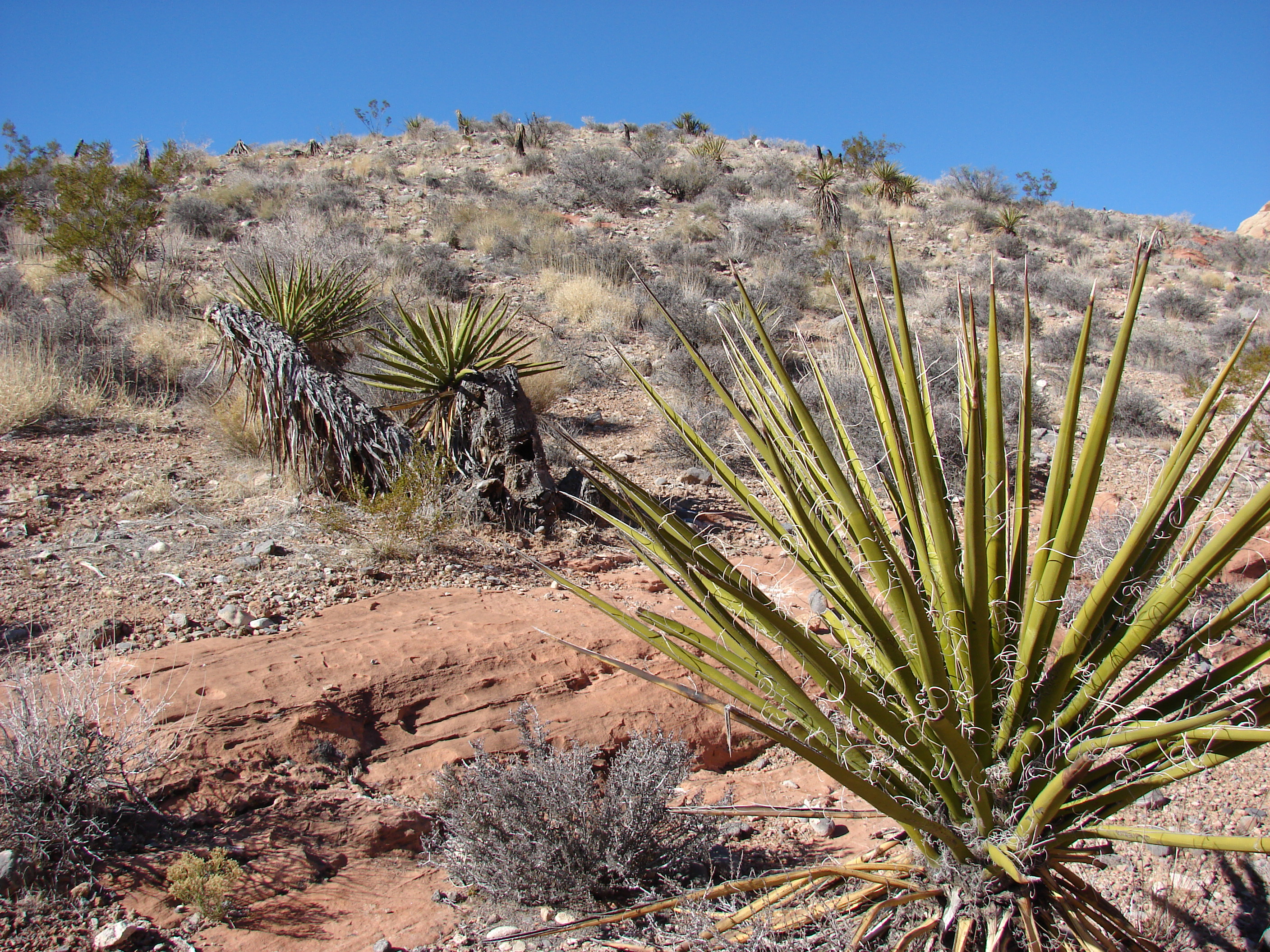 Yucca schidigera. Location: Nevada, Calico Hills second pullout Red Rocks